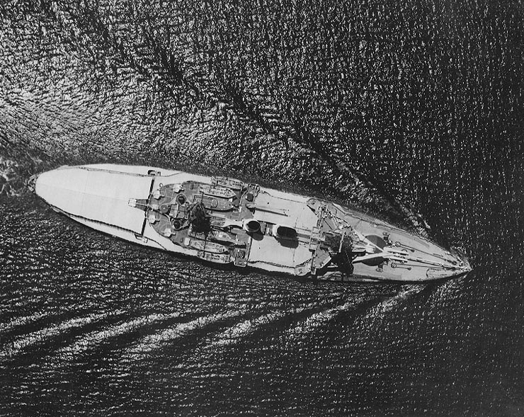 Schlesien (German Battleship, 1908) Photographed on 8 March 1938, while transiting the Panama Canal. U.S. Naval History and Heritage Command Photograph.